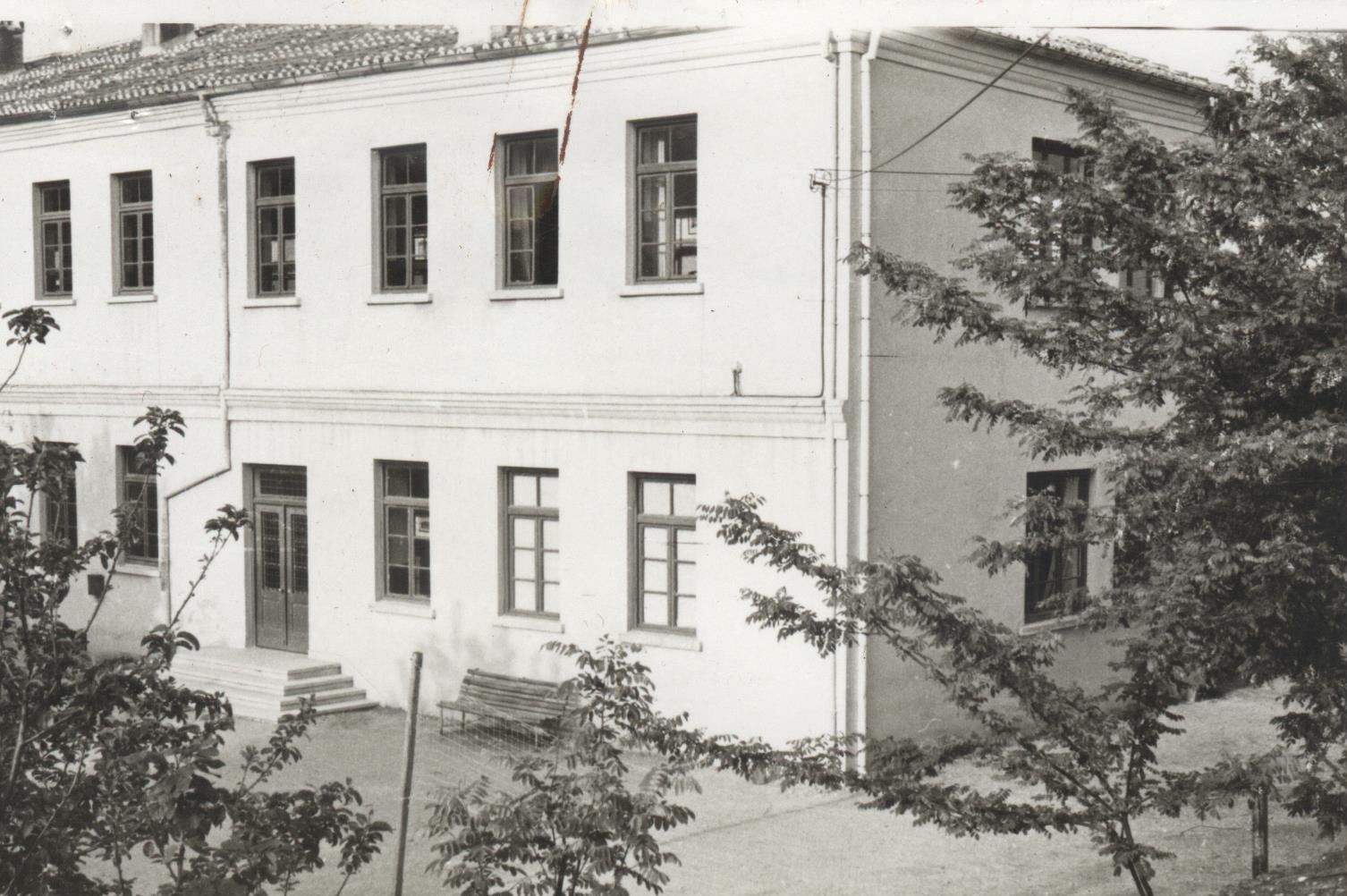 Girls' School in Komotini.